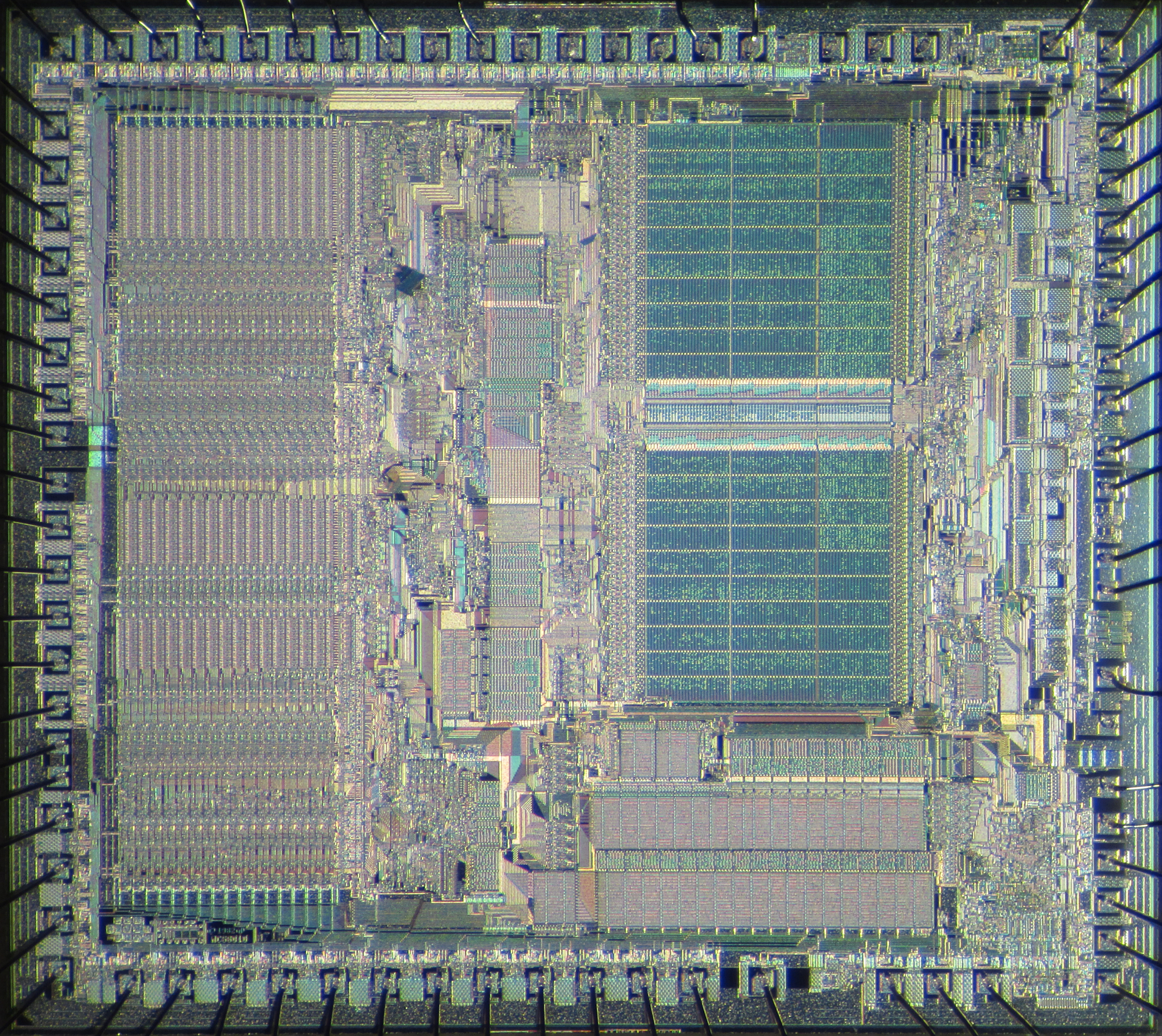 Die shot of Motorola 68012 microprocessor (MC68012RC10, 0A71R mask).